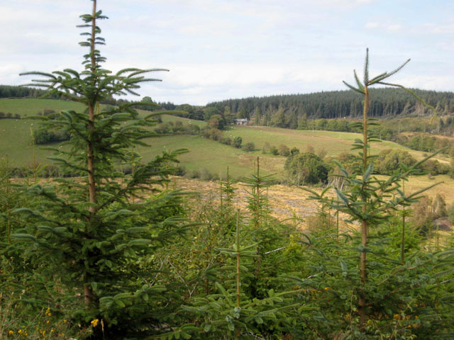 Tyddyn Amlwg, Dyfnant Forest An isolated farm, entirely surrounded by forest.